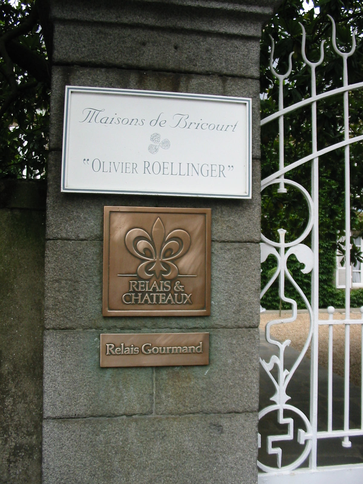 France, Britanny : plaque Olivier Roellinger